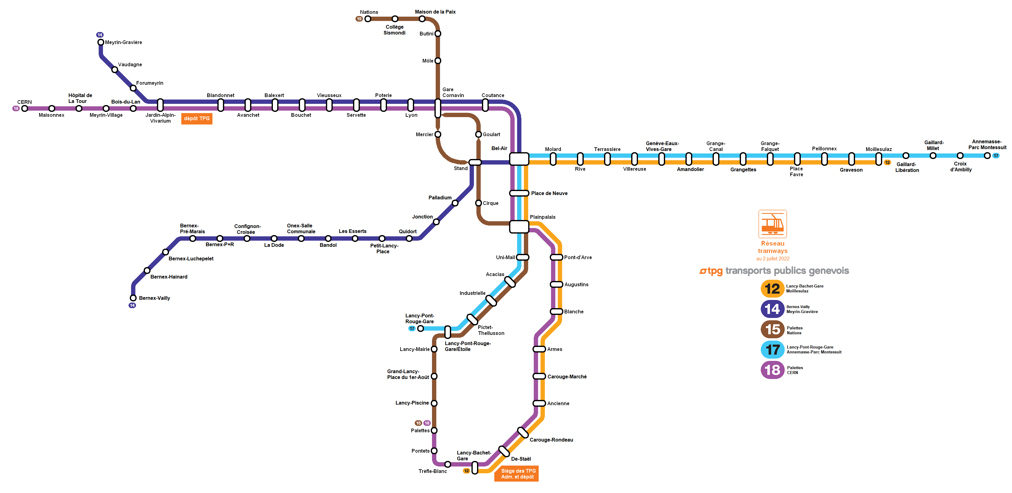 The tram network in december 2019 in Geneva